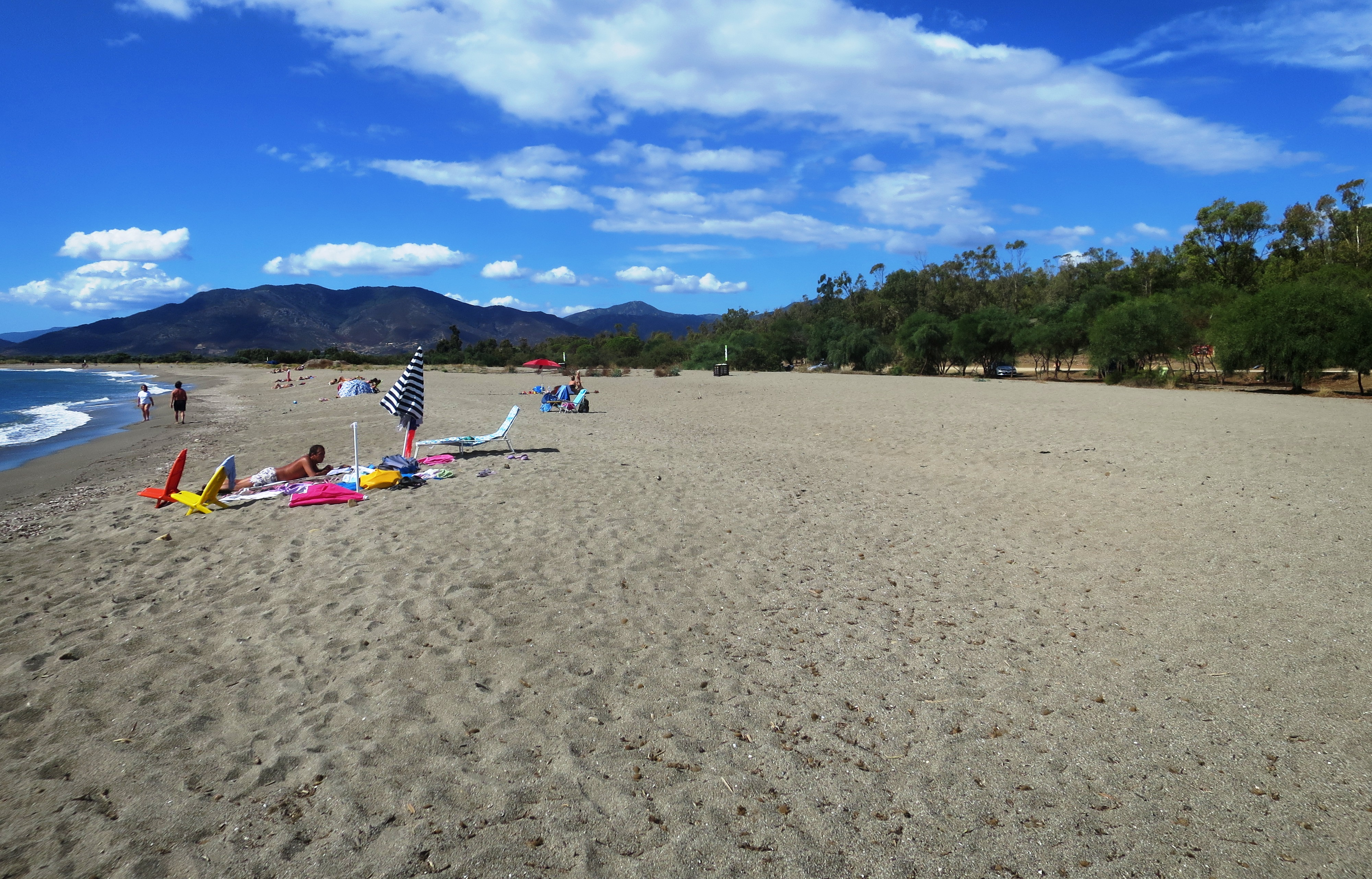 Villaputzu, Sardinia